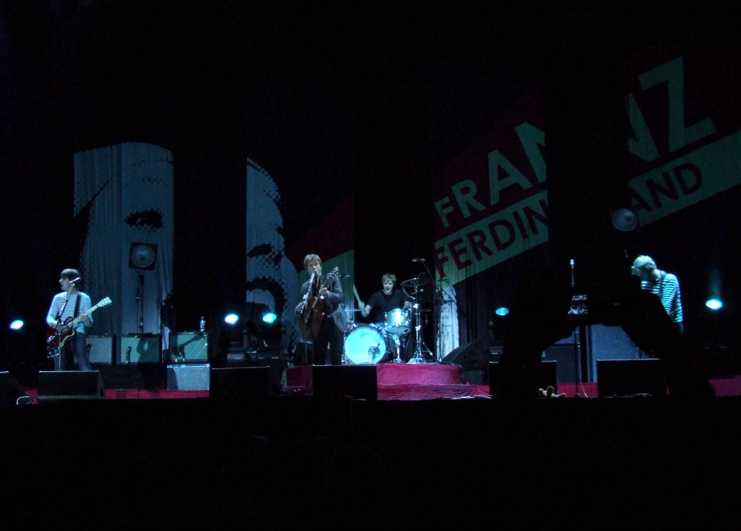 Franz Ferdinand at a concert in Prague, August 2006 Author: Mohylek